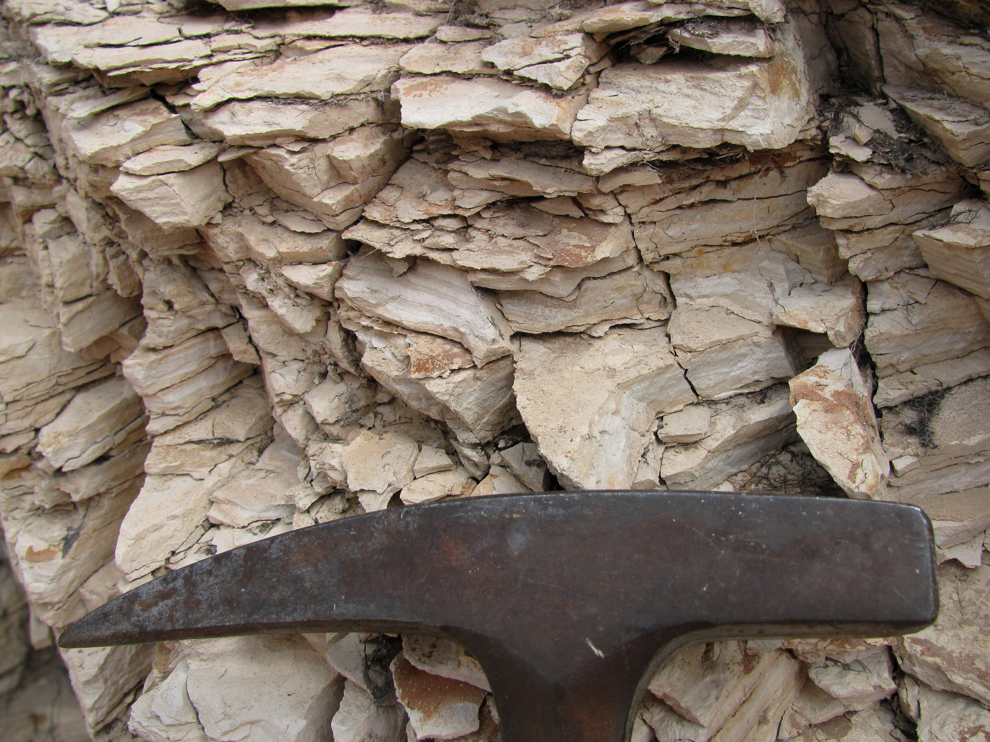 Closeup of the Sisquoc Formation, showing the friable, platy nature of this fine-grained sedimentary rock. Outcrop alongside the stairs to More Mesa Beach, Santa Barbara, California. photo by self.